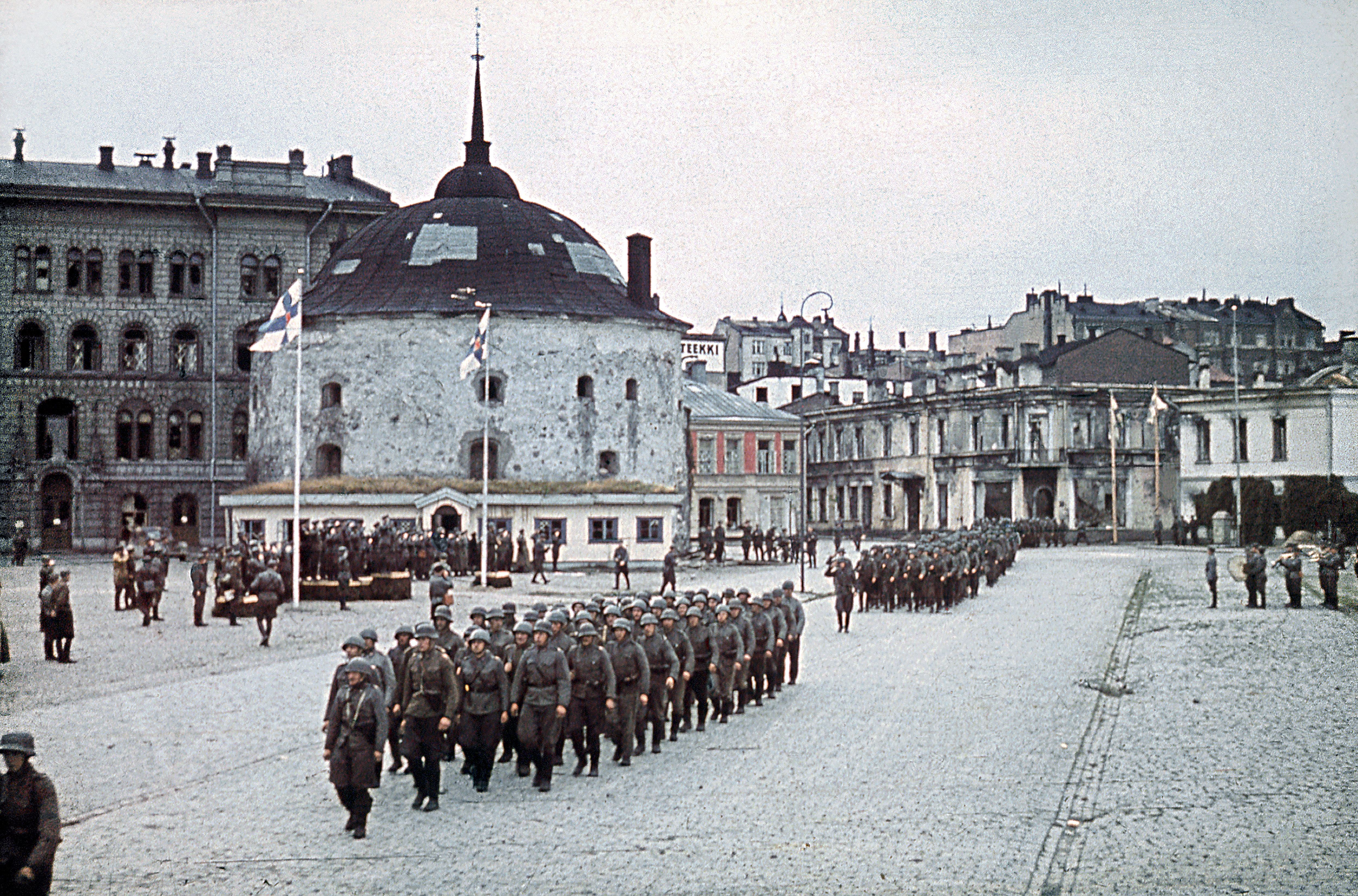 Viipuri (Vyborg) recaptured. A parade on 31.8.1941.